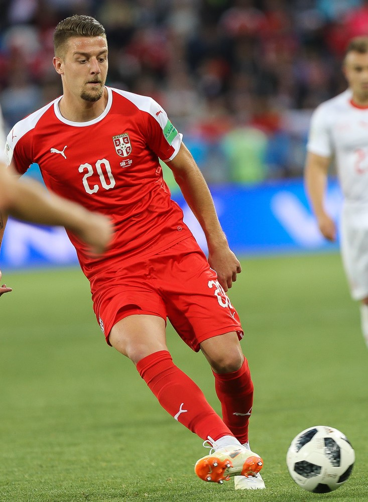 Sergej Milinković-Savić